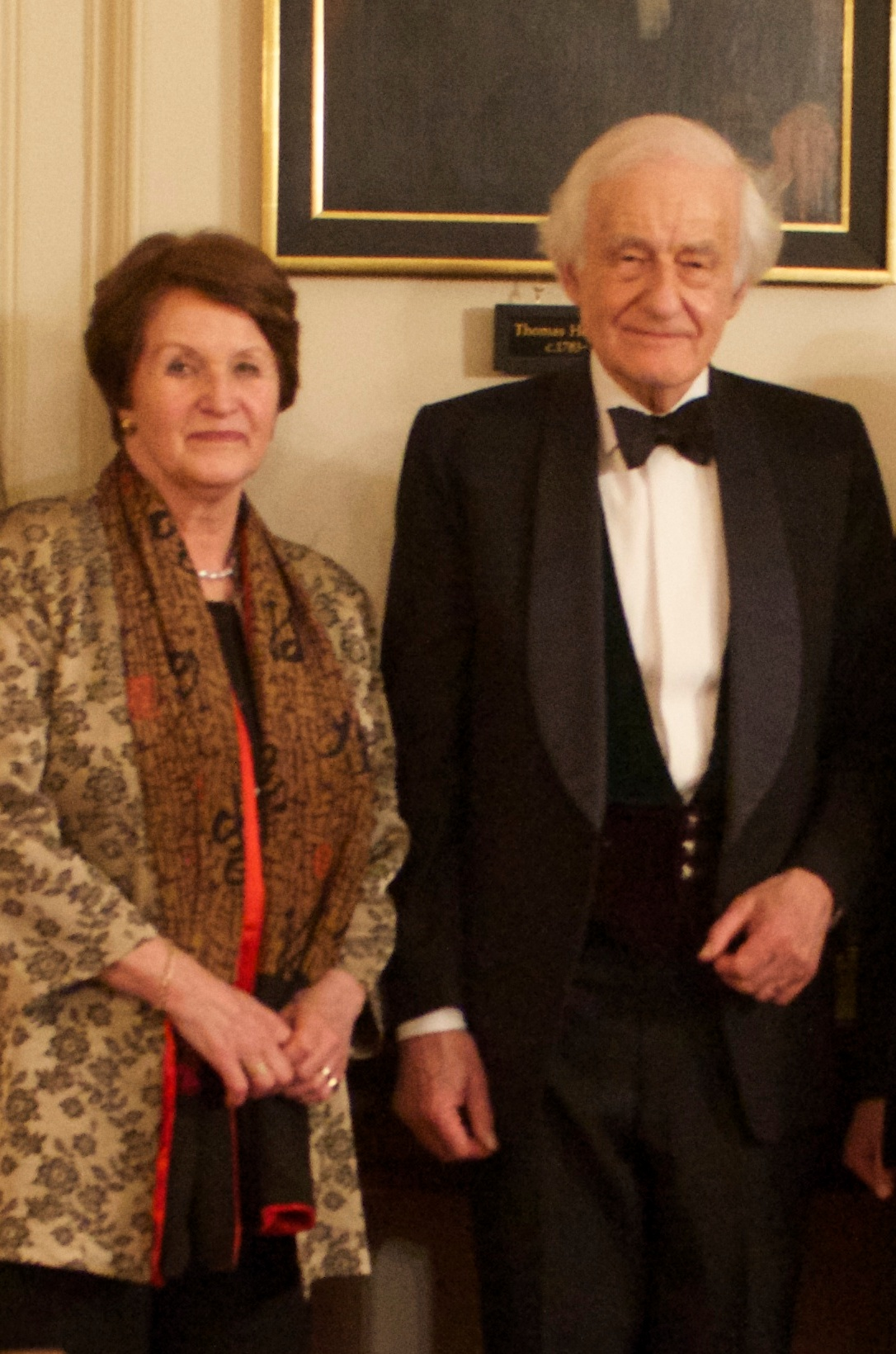 David Wilson, Baron Wilson of Tillyorn and Lady Wilson at the CUHKCAS annual dinner, Clare College, Cambridge, 7 March 2013.